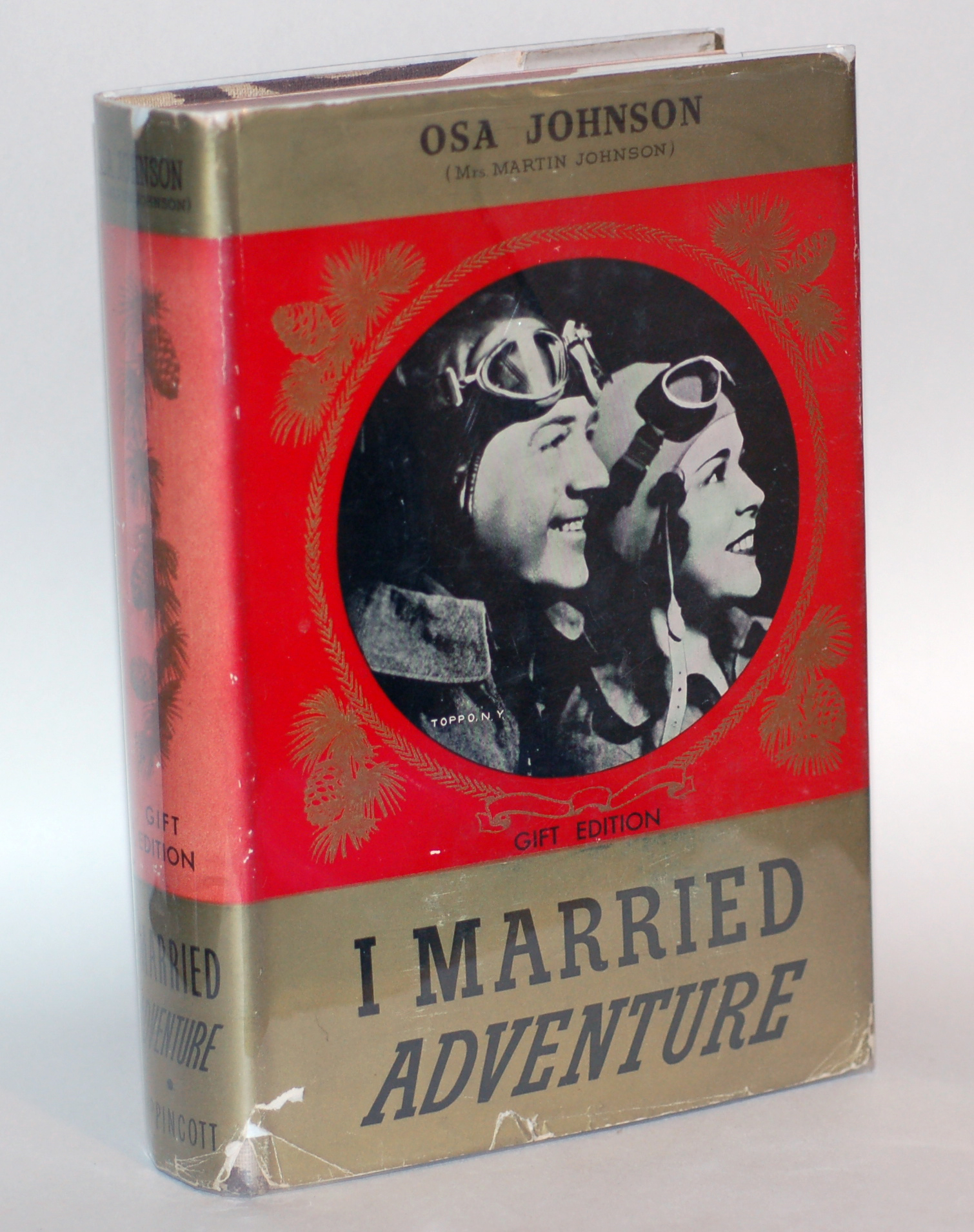 An autographed 1940 copy of the Gift Edition of Osa Johnson's I Married Adventure